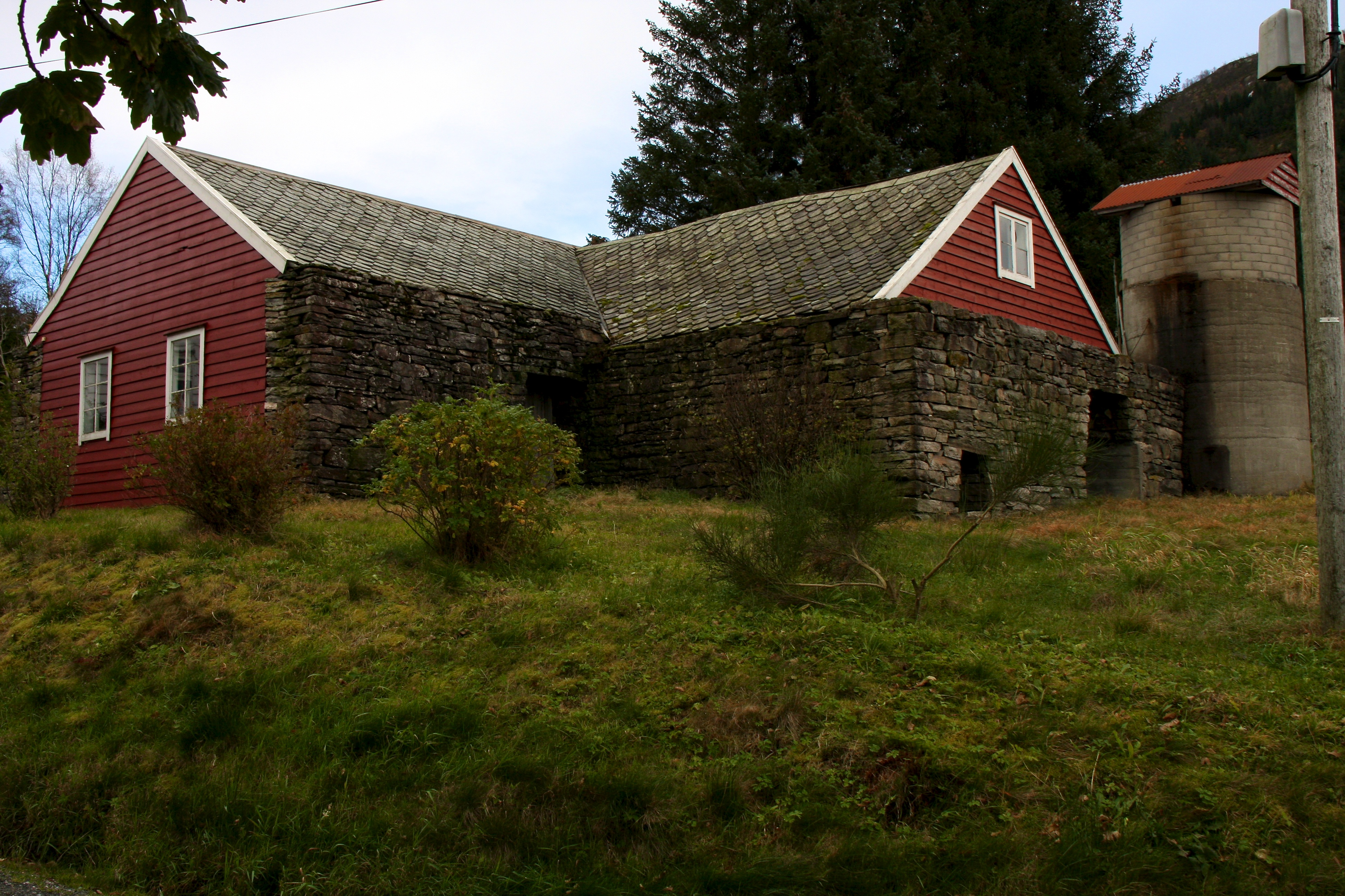 Gulen municipality, Norway.